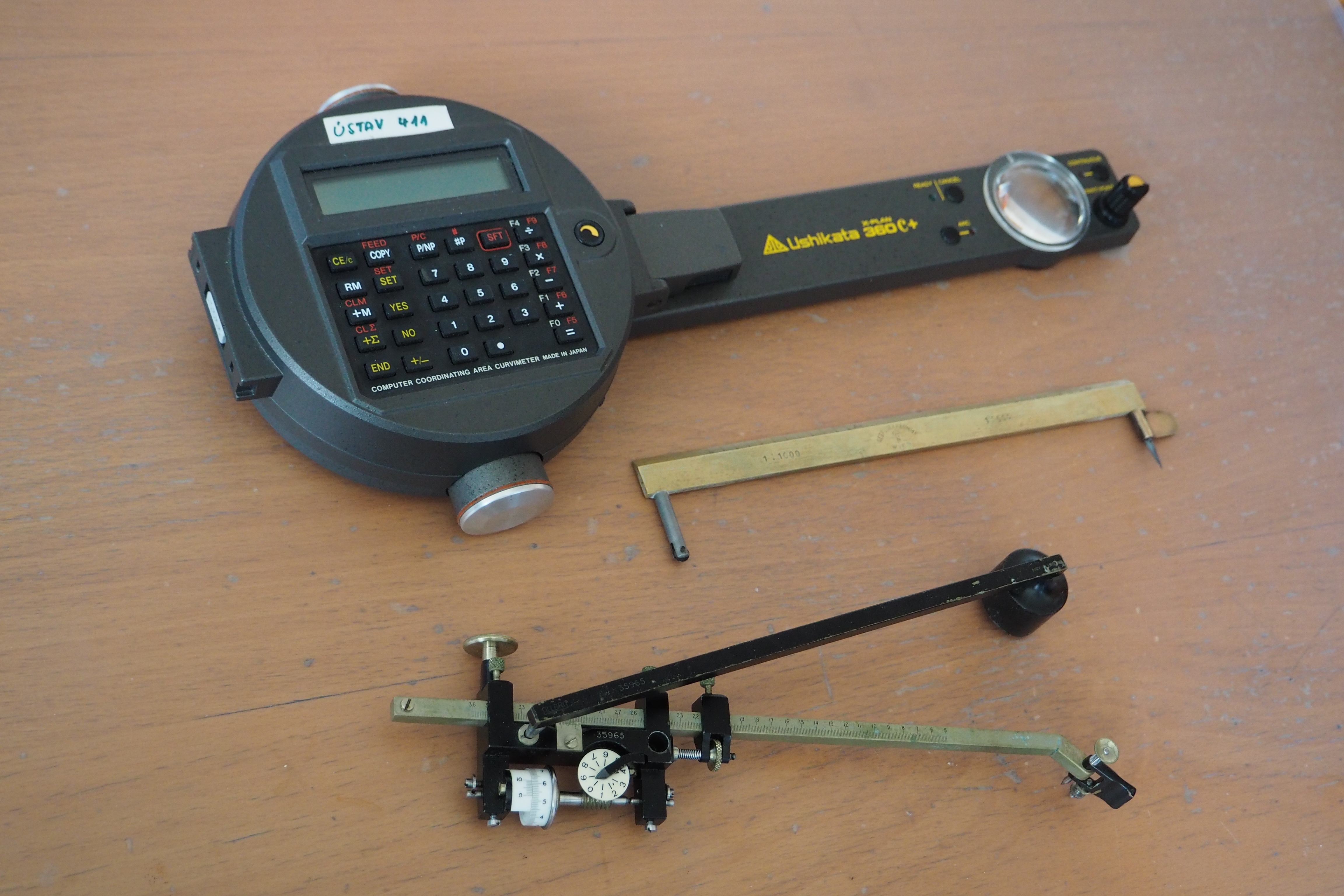 Three planimeters - digital, Amsler and Prytz. These instruments measure the area of twodimensional region of arbitrary shape.